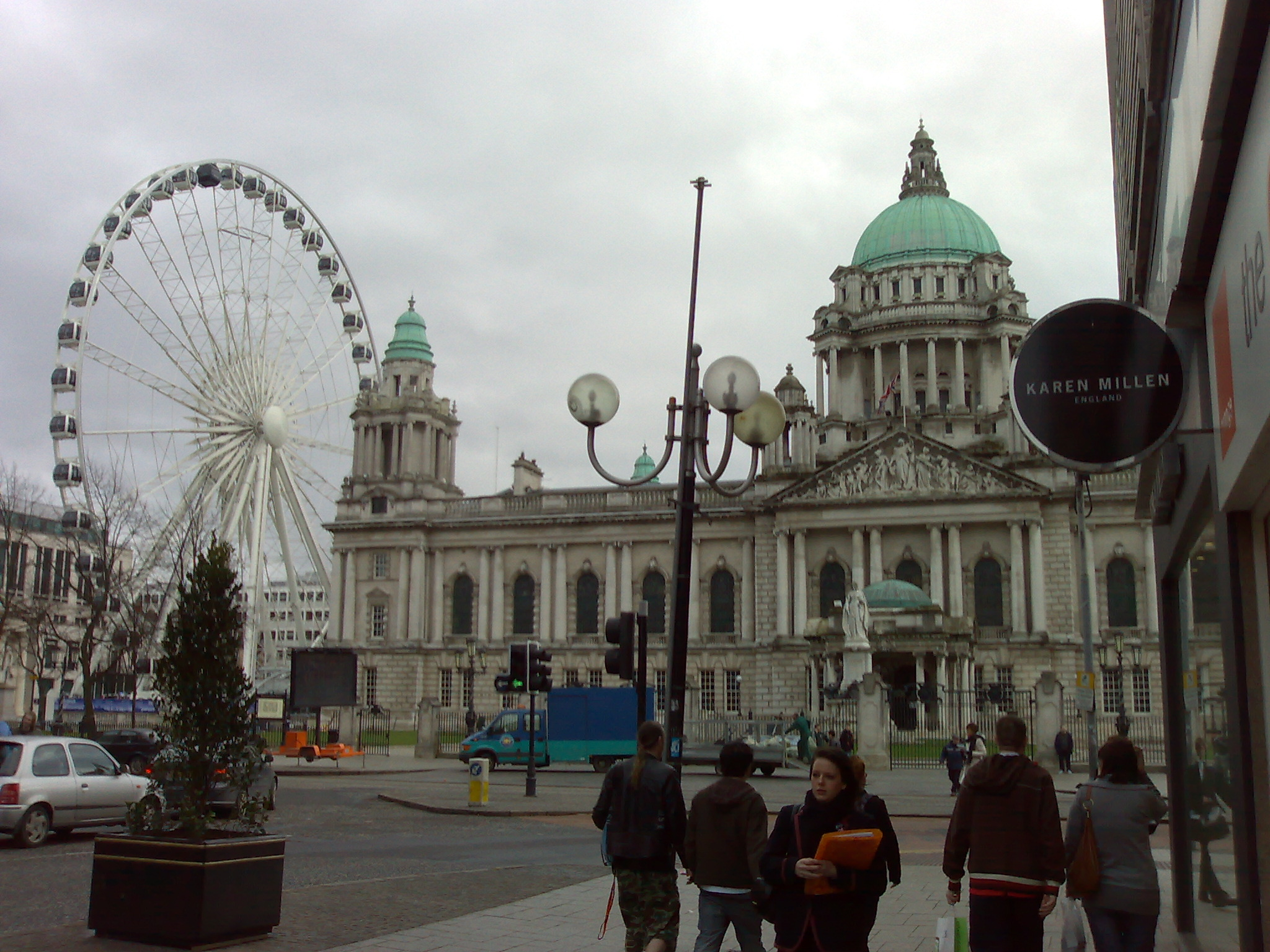 Roda gigante de Belfast e câmara municipal. Belfast wheel and city hall.